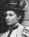 Christine Mary Elizabeth Burrows (1872–1959), former principal of St Hilda's College, Oxford. Photo from the archives of the college.